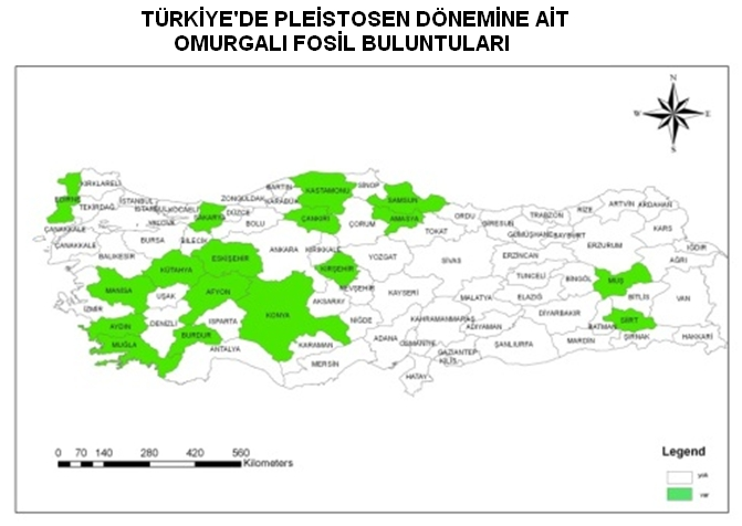 The fossil vertebrate remains from the Pleistocene Period in Turkey